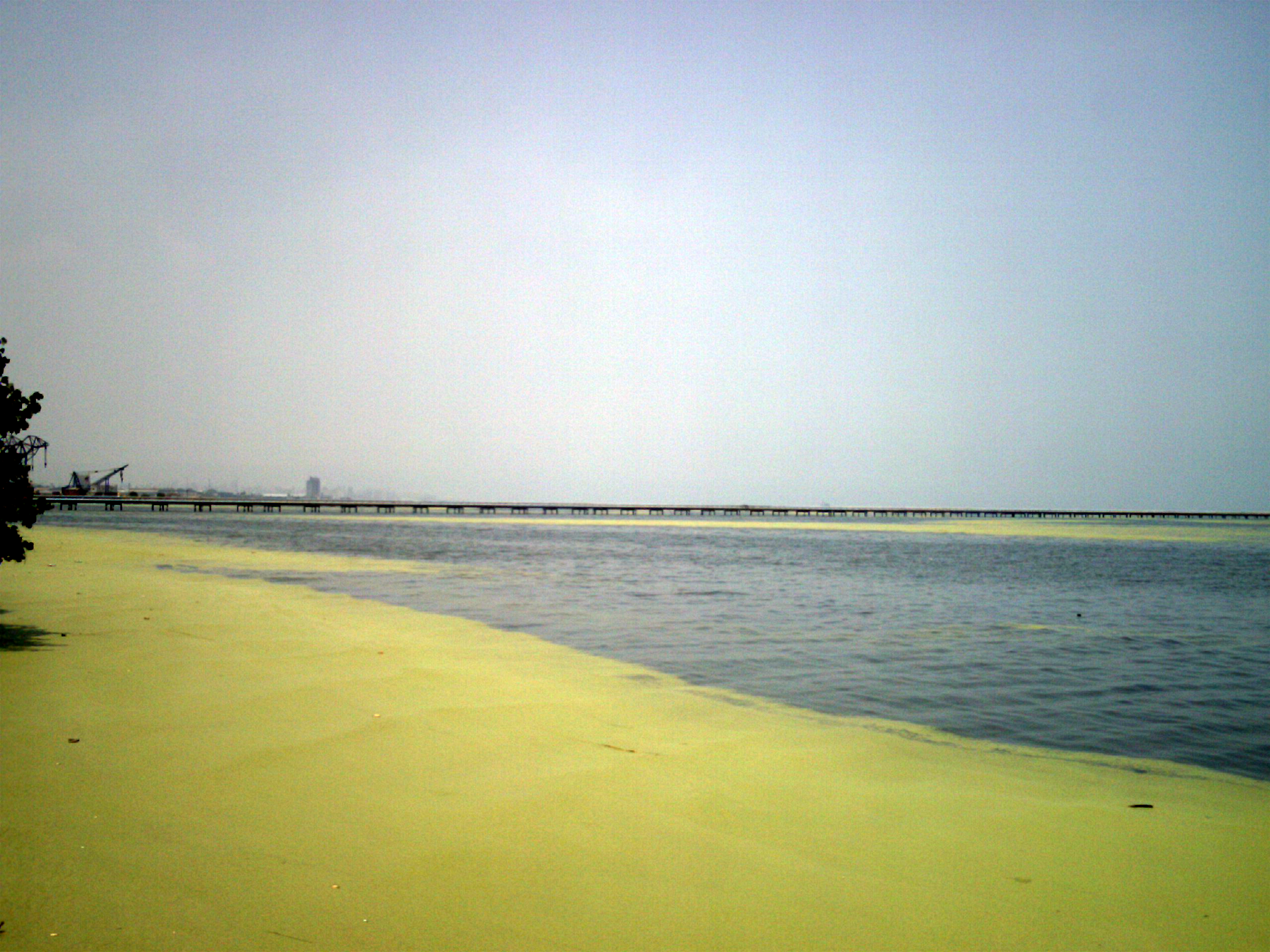 Contamination of the Maracaibo lake by Lemna obscura (Austin) Daubs, Zulia State, Venezuela